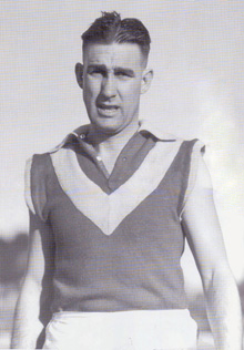 Photo of Ken Farmer